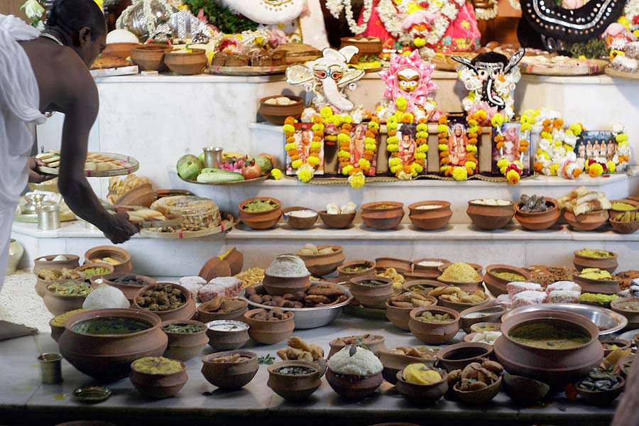 Bhoga offering to Sri Sri Radha-Madhava in Mayapur Czandrodaja Mandir